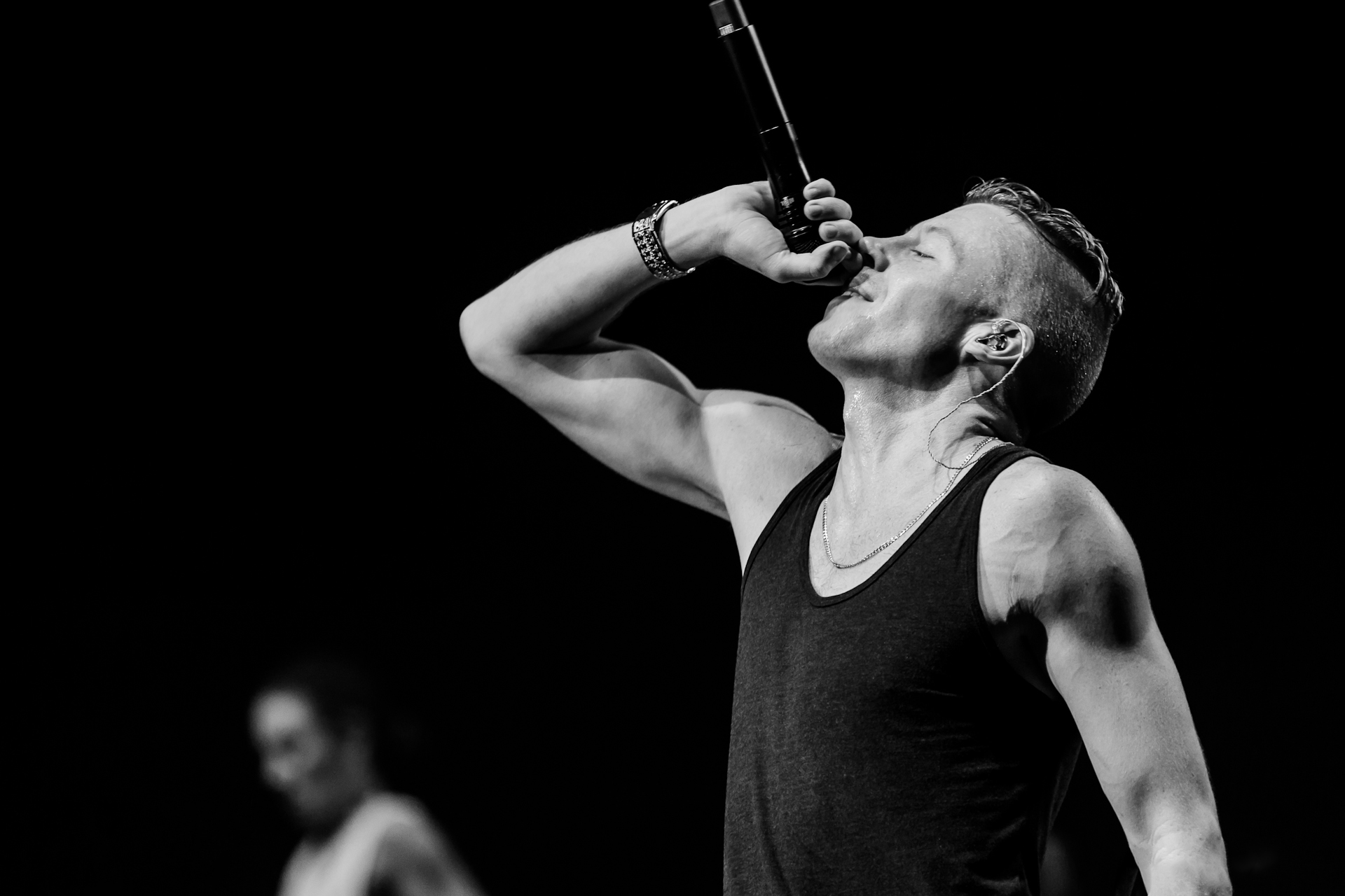 Macklemore- The Heist Tour Toronto Nov 28. Photography shot by drew.